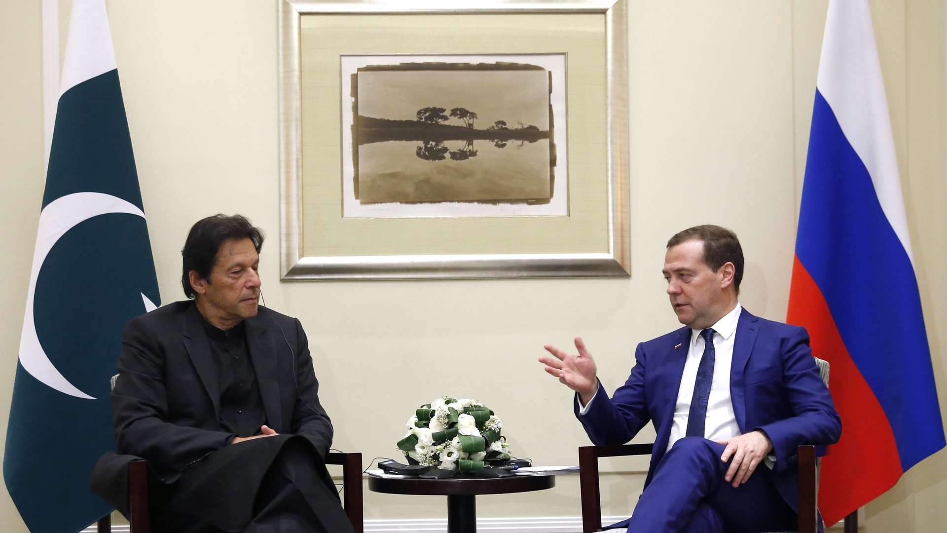 Dmitry Medvedev’s meeting with Prime Minister of Pakistan Imran Khan